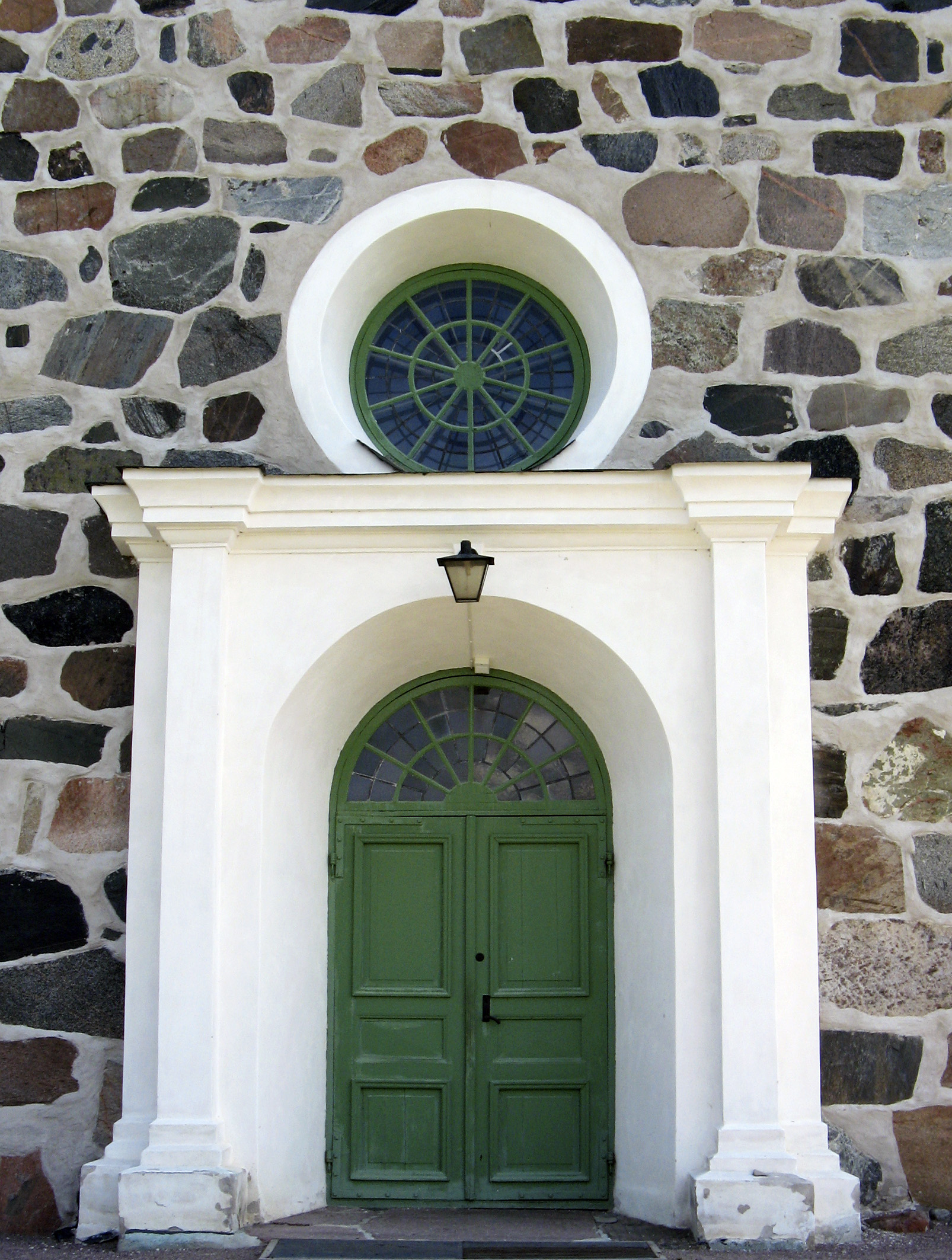 Hökhuvud Church in Uppland, Sweden